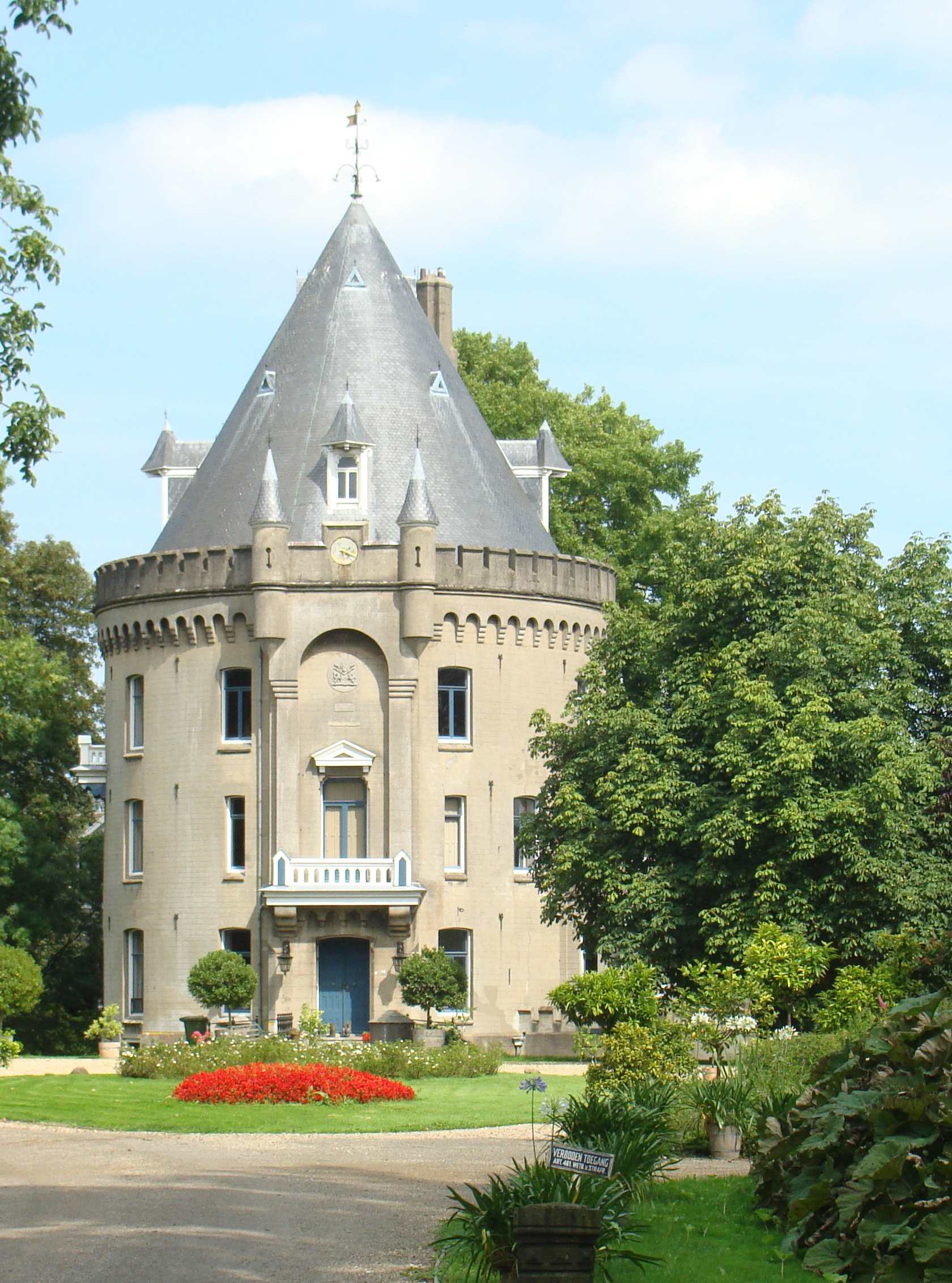 Kasteel De Gelderse Toren, a castle in Spankeren (The Netherlands) in August 2011